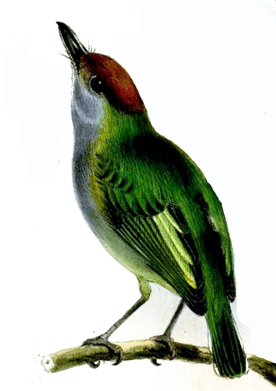 Black-and-white Tody-tyrant, adult female